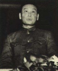 陶峙岳，中国全国政协第一次会议，1950年